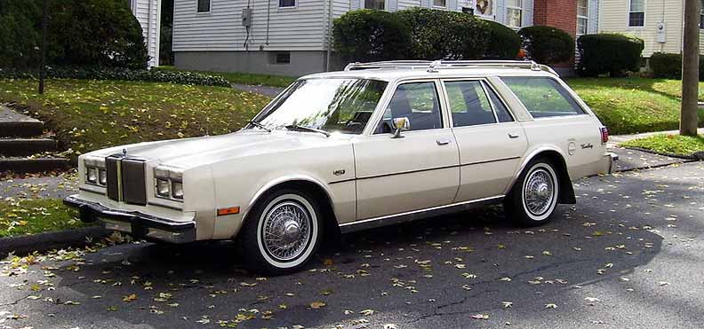 One of 1887 wagons sold that year without the woodgrain paneling. This M-body wagon would only be offered one more year before being replaced by a front wheel drive K-car wagon. The above photo is of my wagon.